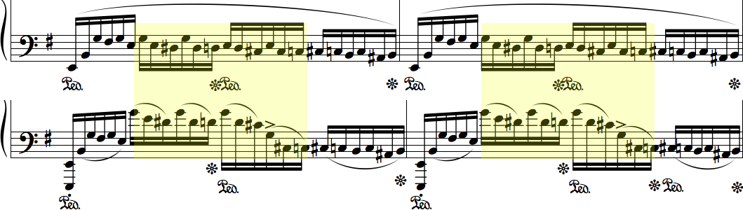 The Più vivo section in Six Moments Musicaux, No. 4. The piece, composed by Sergei Rachmaninoff in 1896 was published before 1923, and thus is in the public domain. See also Image:MM4 excerpt.ogg.